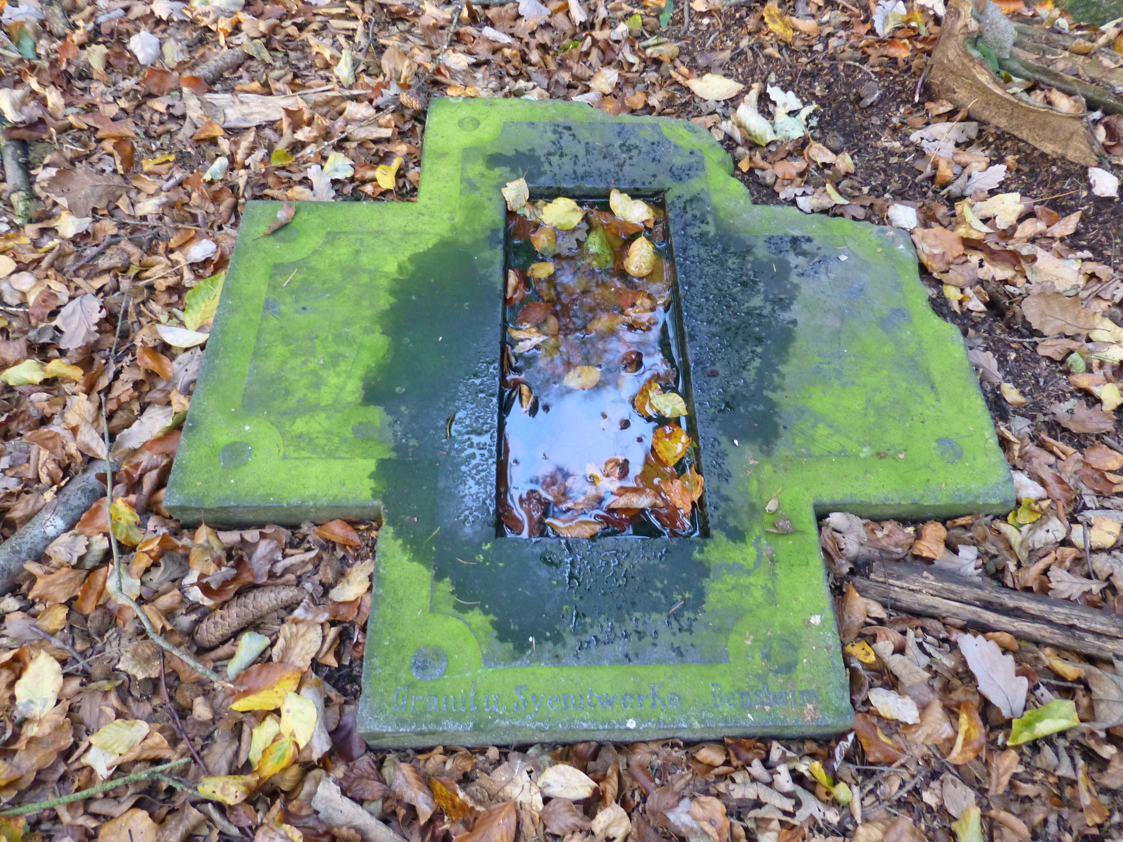 Historic fundament of the former observation tower Ernst-Ludwig-Turm on mountain Knörschhügel near Knoden in Odenwald